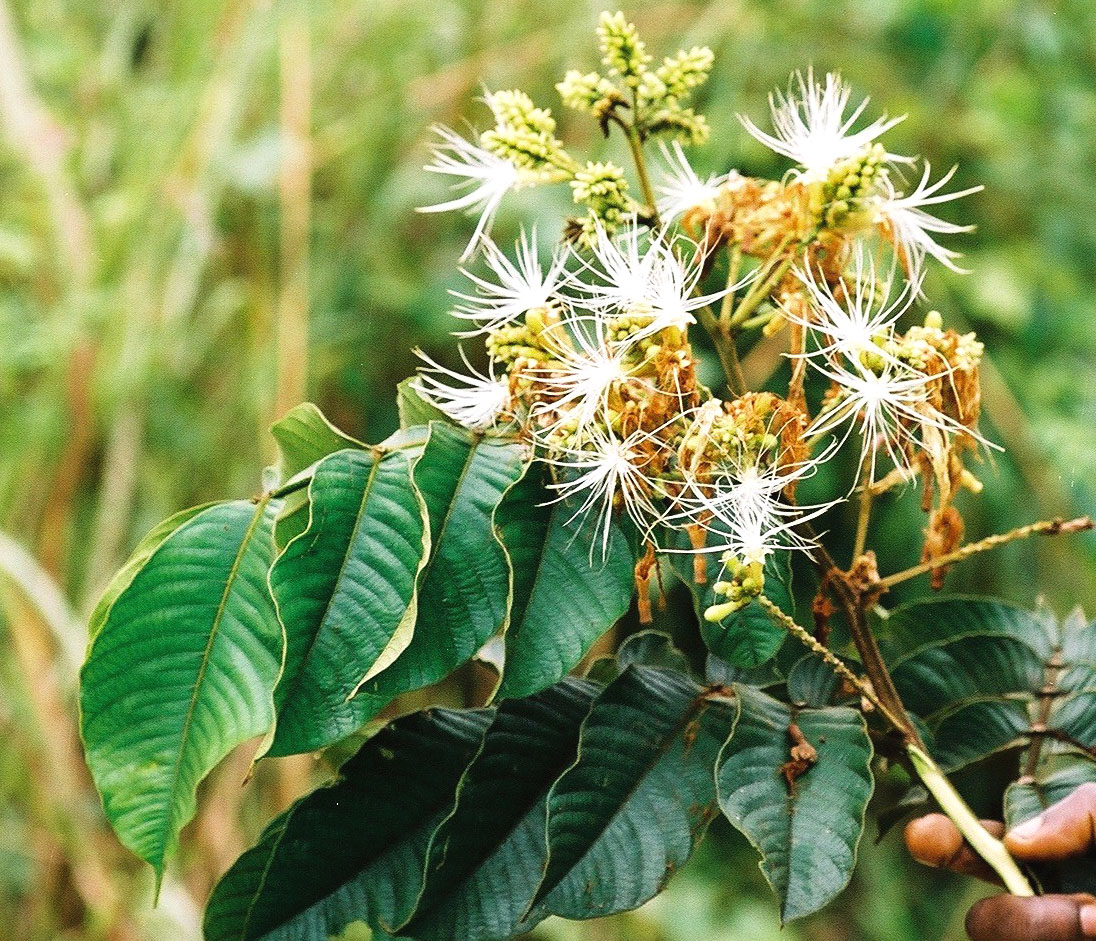 Inga edulis in flower in Bas-Congo, DR Congo